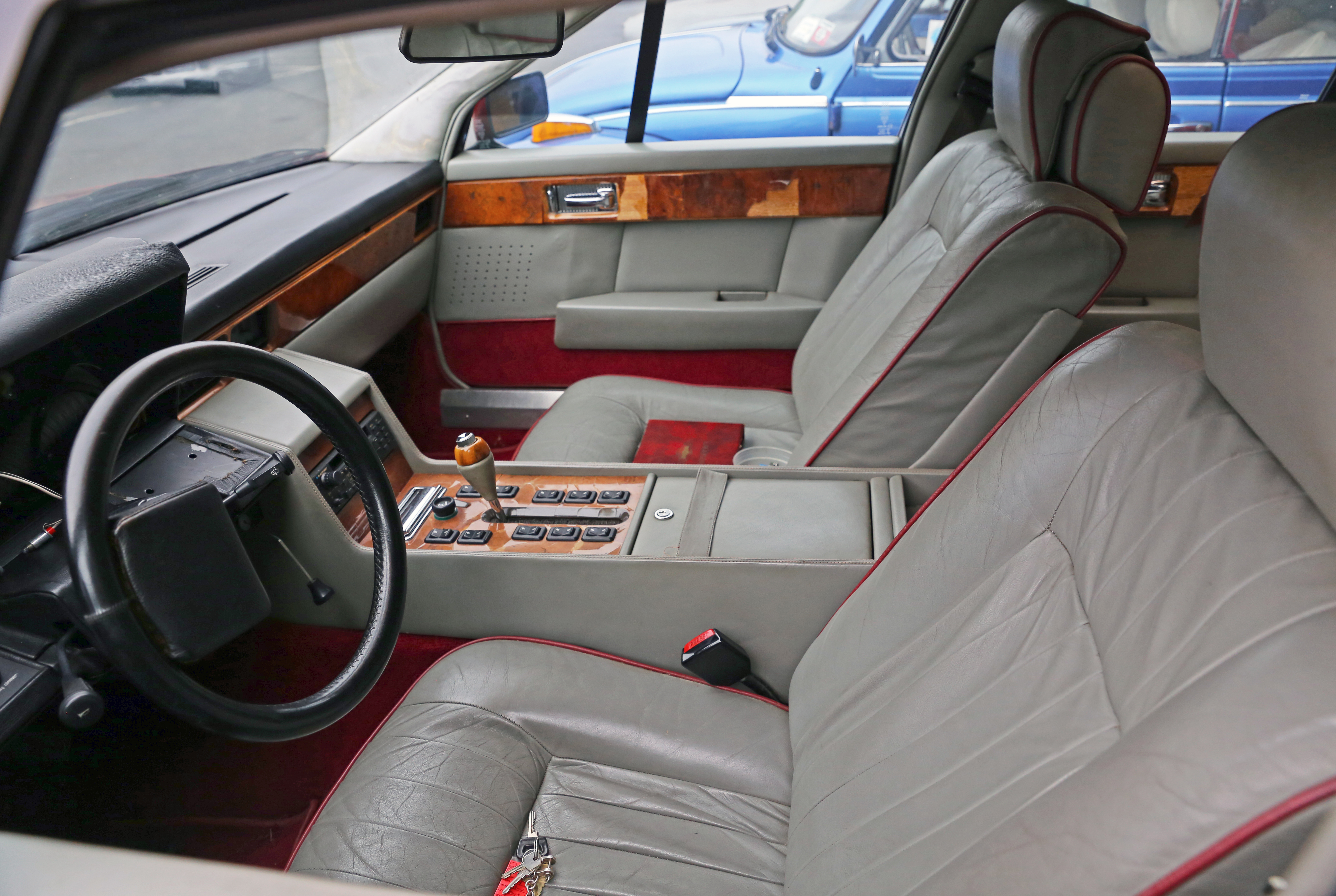 In need of some TLC. The touch control digital instrumentation has apparently given up the ghost (unsurprisingly) and parts thereof are scattered throughout the interior. Is this even repairable? Maybe an analog set of instruments would be the answer.